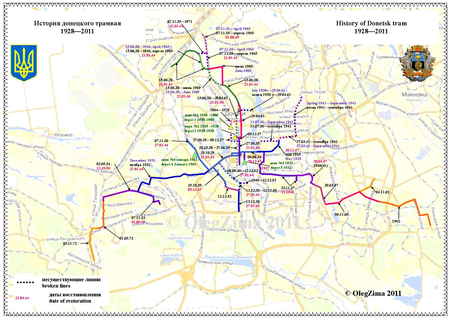 map of tram history of Donetsk city (Ukraine)